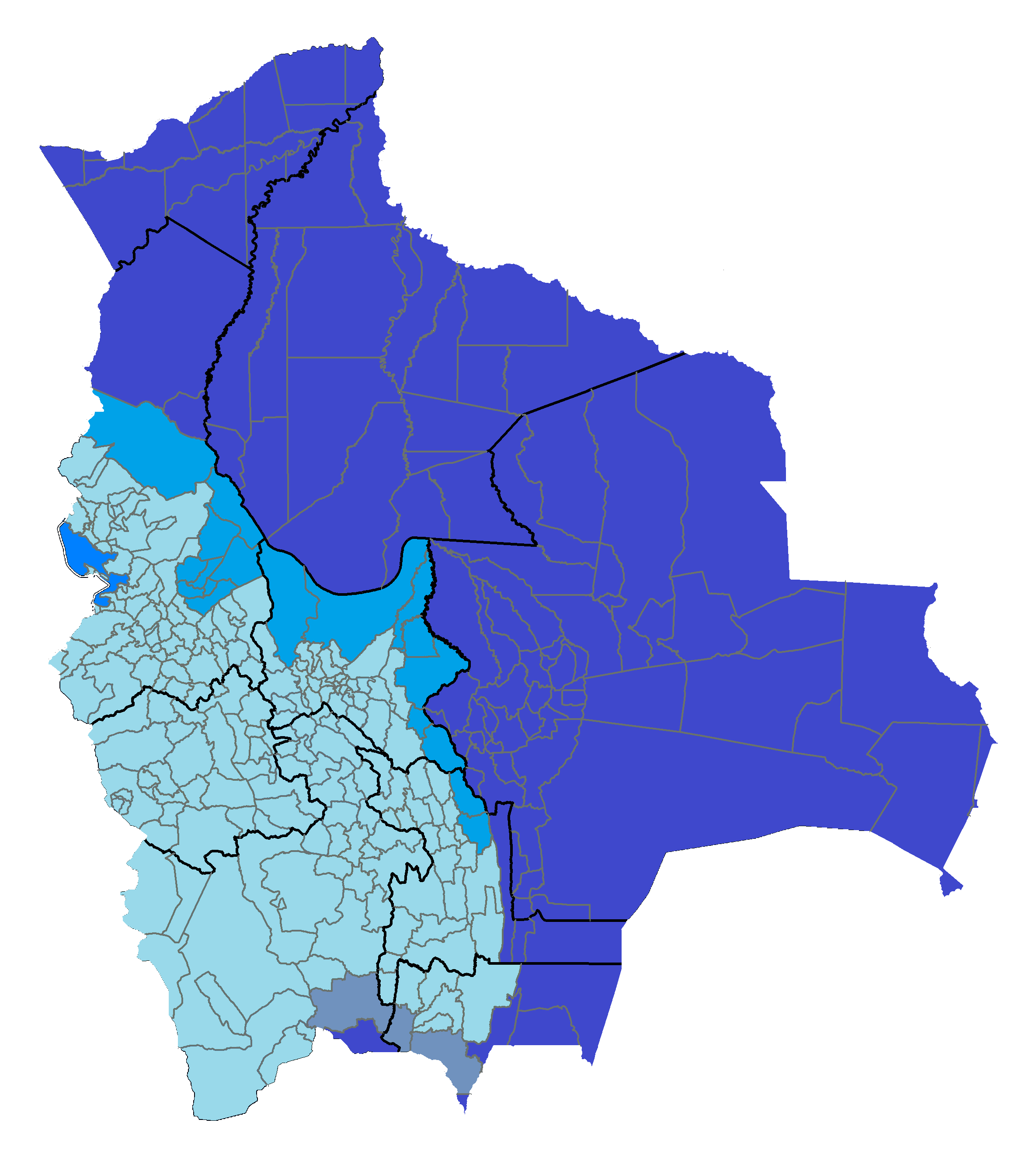 It shows the voseo use in Bolivia with the differences between the provinces.